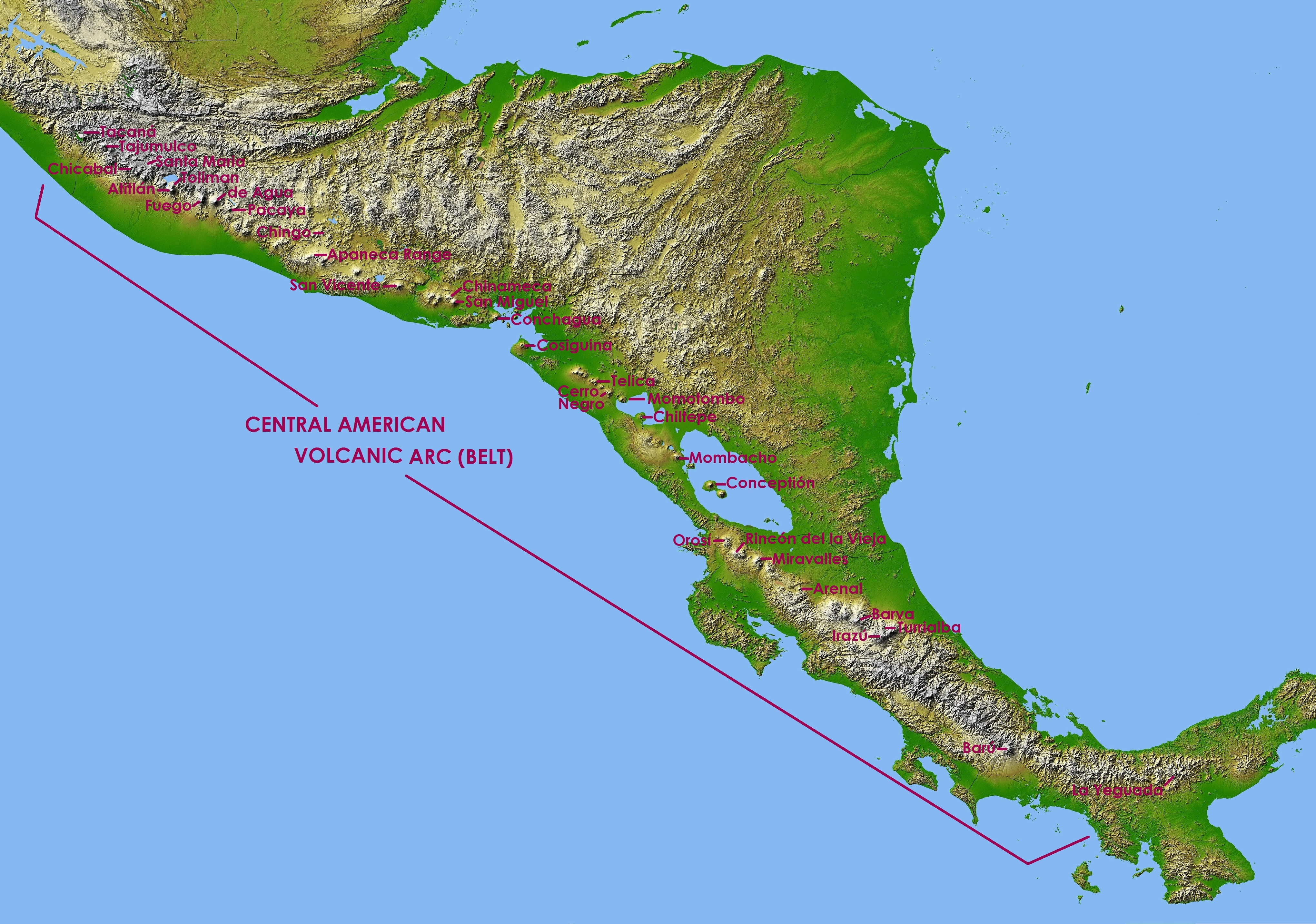 Central America in SRTM Shaded Relief and Colored Height